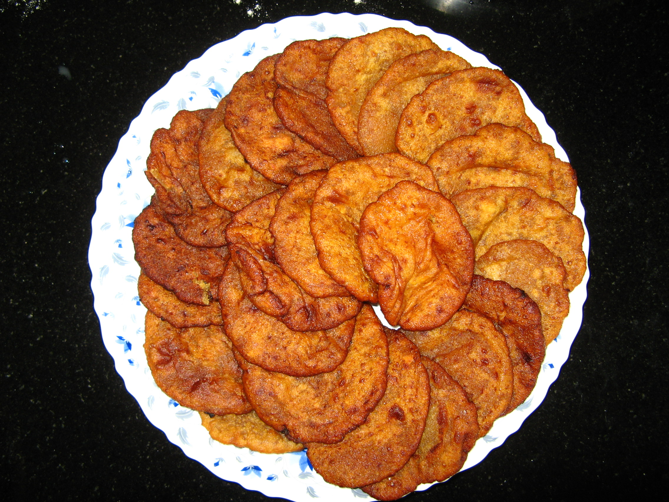 special kakara of Puri district